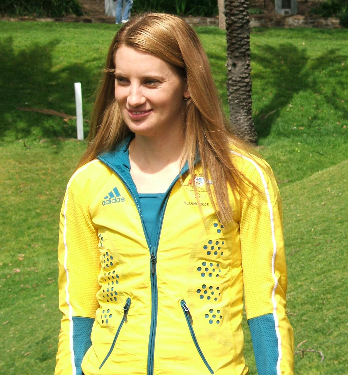 Claire Tallent at the 2008 Olympic homecoming parade in Adelaide